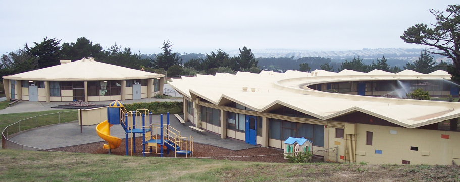 Marjorie H. Tobias Elementary School, Daly City, California. (previously known as Vista Mar School), circa 1958